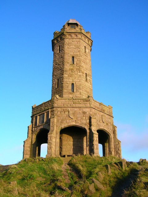 The Jubilee Tower at grid reference SD678215 above Darwen, Lancashire, England.